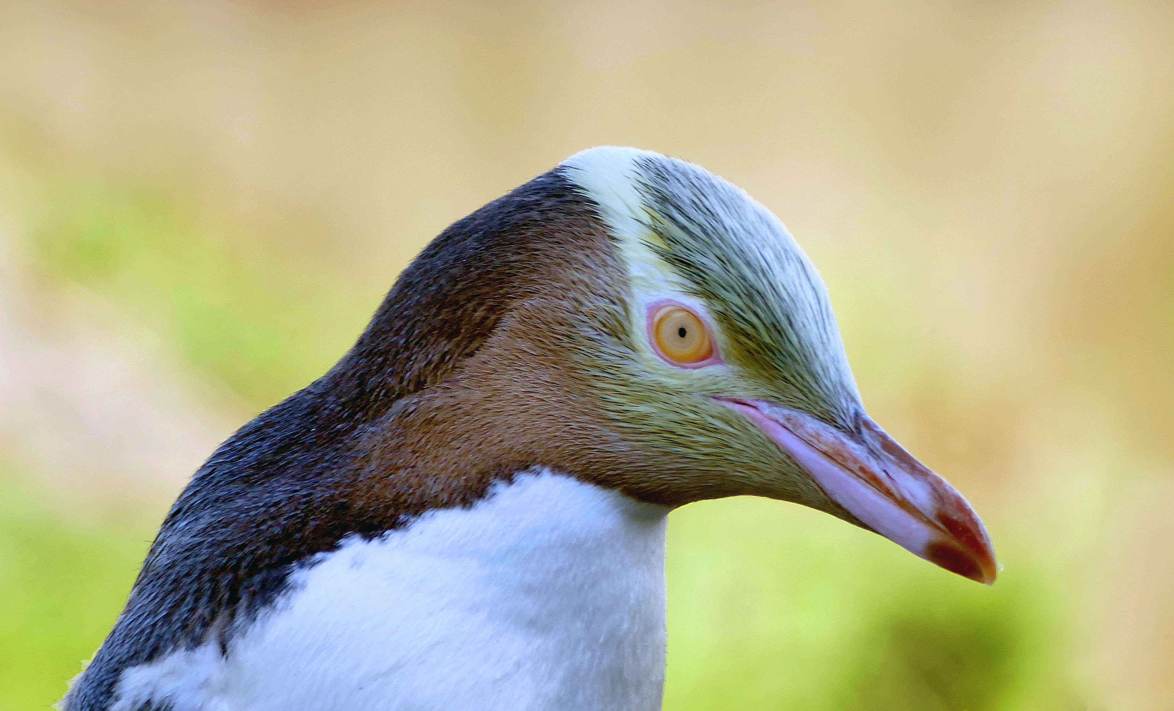 The yellow-eyed penguin is one of the few penguin species found north of the Antarctic Ocean, and as its name suggests, this species of penguin is easily idenitfied by its yellow coloured eyes and bright yellow band that runs from its eyes round the back of the yellow-eyed penguin's head. The yellow-eyed penguin is found off the coast of the south island of New Zealand where this species gathers in colonies along the beaches and boulder fields. The yellow-eyed penguin is also found on a few of the islands of the main island including Stewart, Auckland and the Campbell Islands.